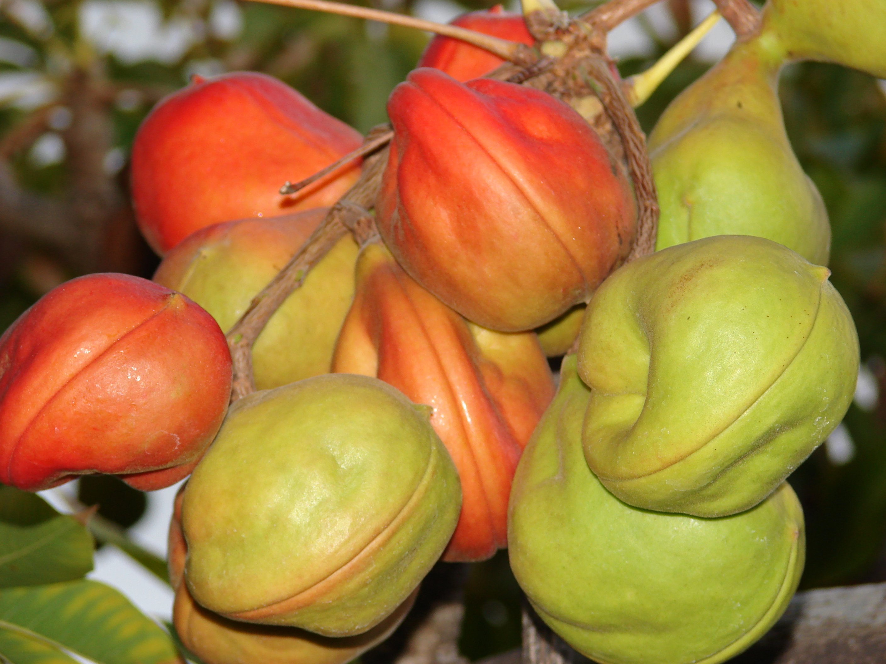 Sterculia foetida (green fruit). Location: Oahu, Ala Moana Beach Park